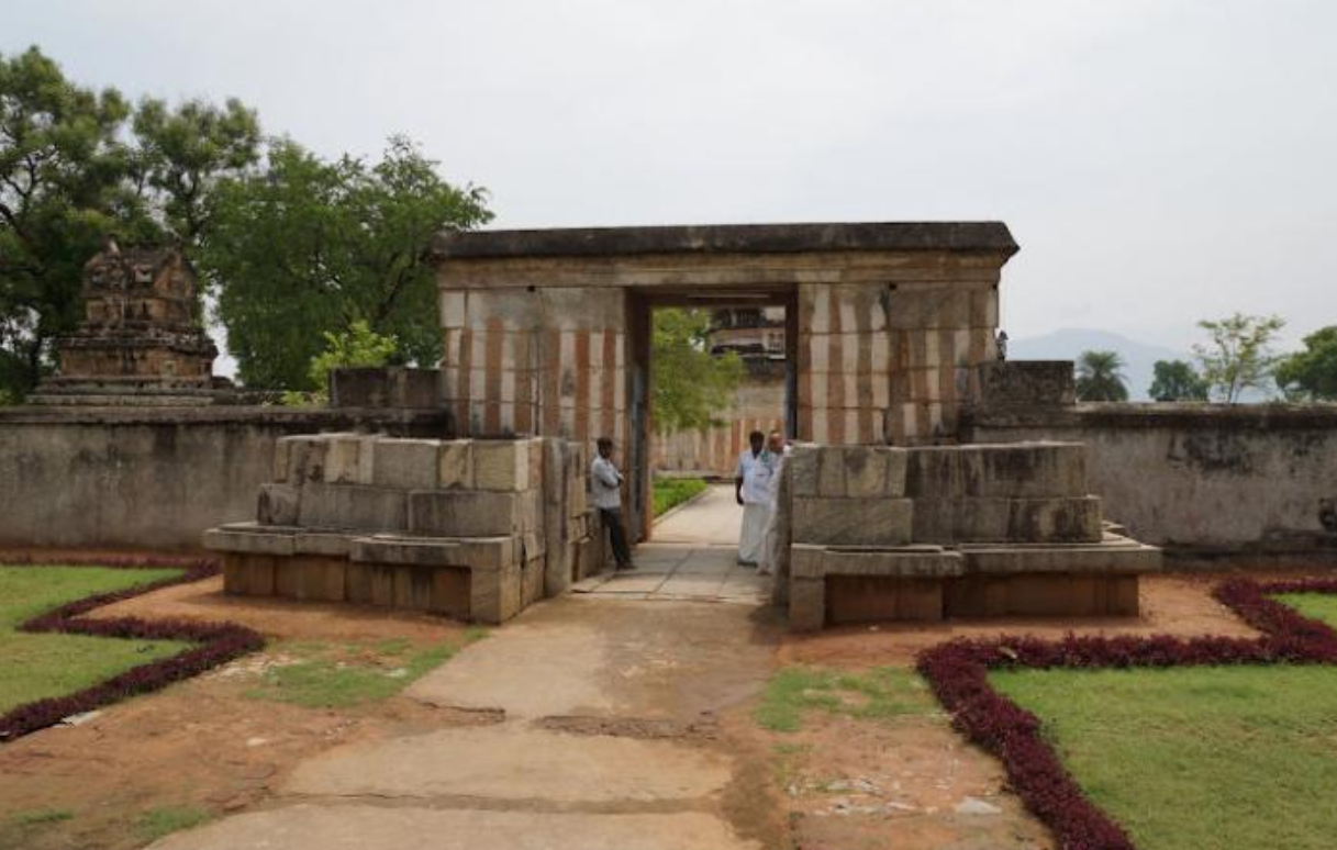 Gudimallam Temple entrance